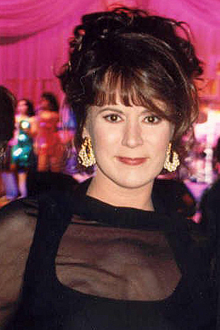 Patricia Richardson at the Governor's Ball after the 1994 Emmy Awards.